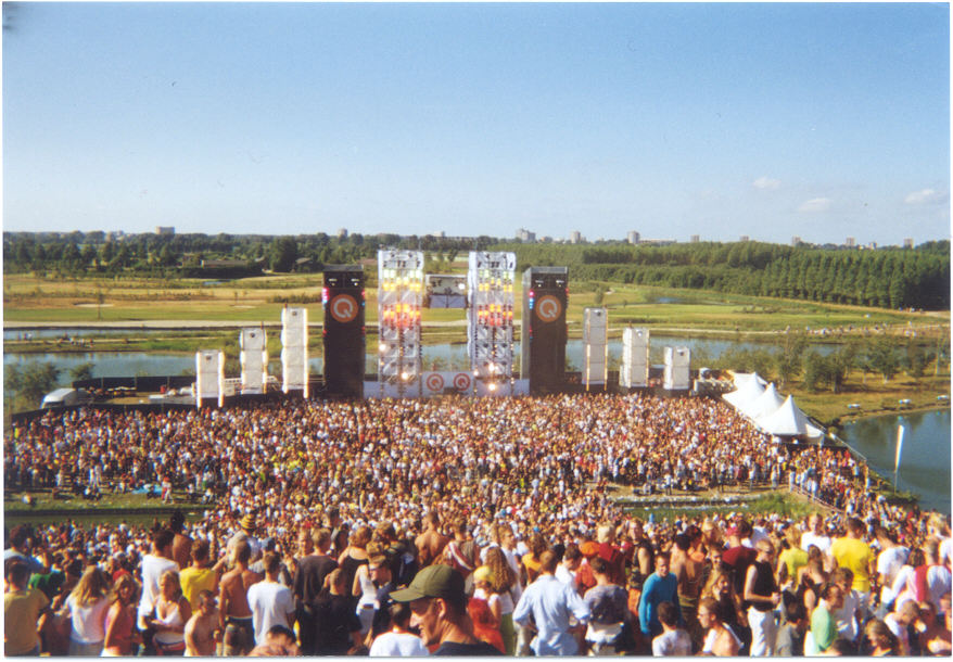 Q-dance stage on Mysteryland 2003, the Netherlands